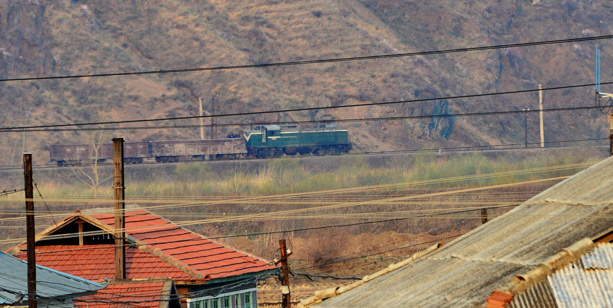 A Soviet-built TGM3 type locomotive converted to electric operation by the North Korean State Railway in operation on the Hambuk Line.